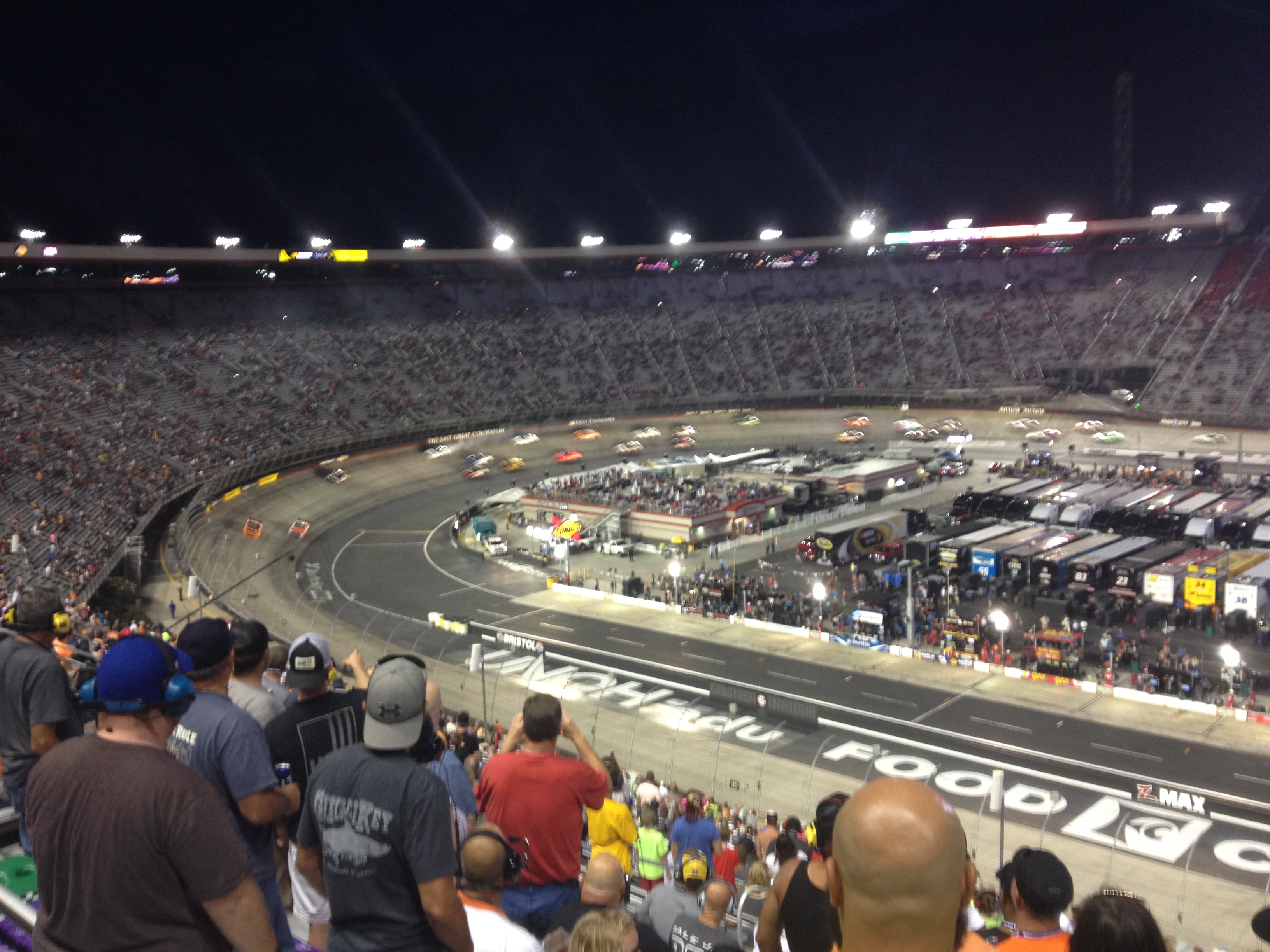 The 2016 Food City 300 at Bristol Motor Speedway viewed from the frontstretch, with Kyle Larson (#42) leading Kyle Busch (#18) and the rest of the field.